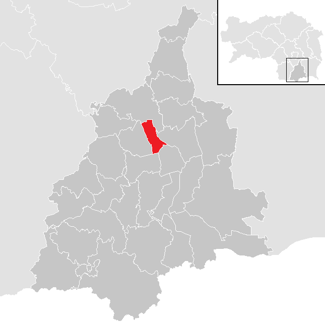 District Leibnitz